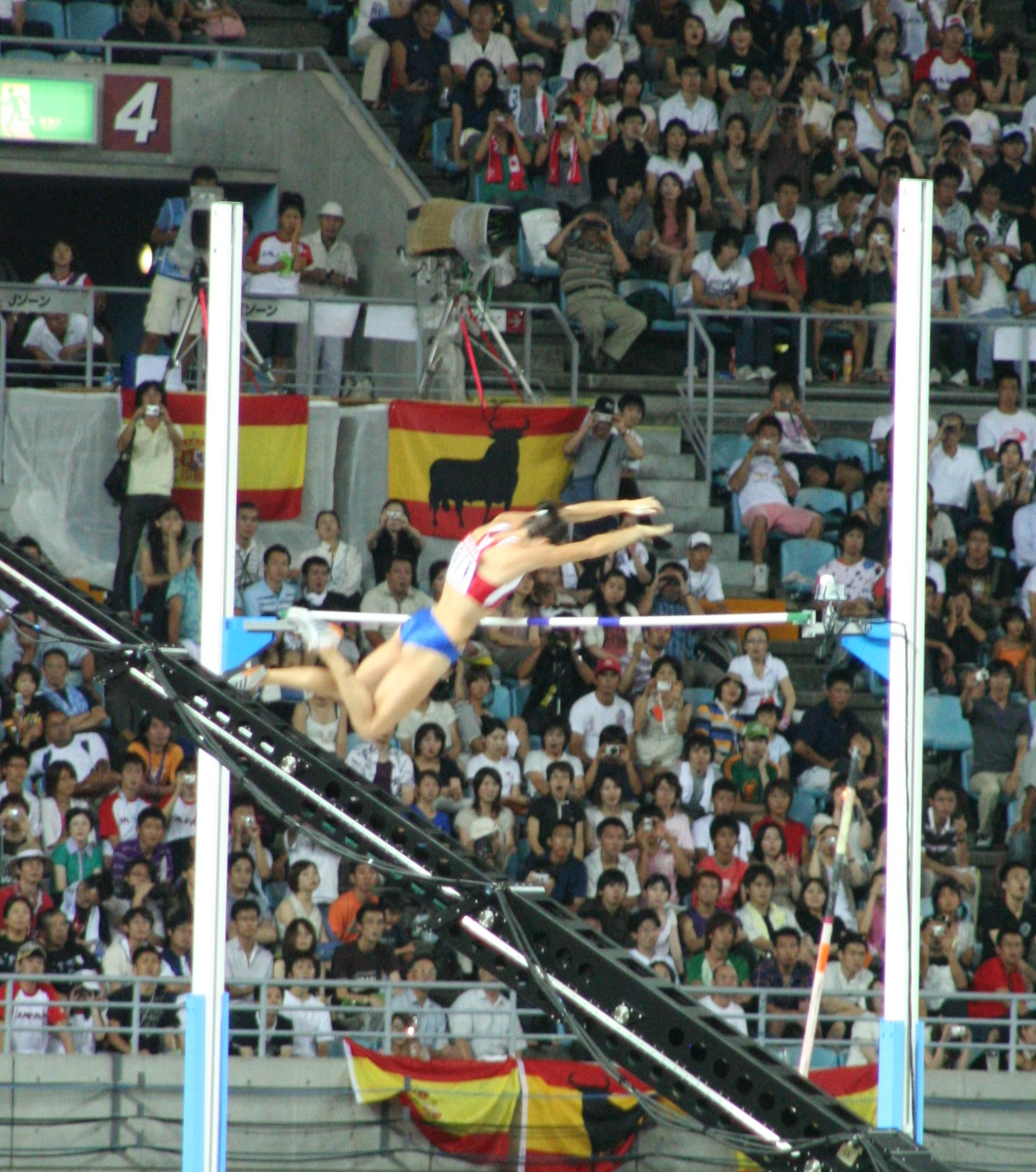 World Athletics Championships 2007 in Osaka - Yelena Isinbayeva's victorious attempt over 4 metres 80 in the women's Pole vault competition